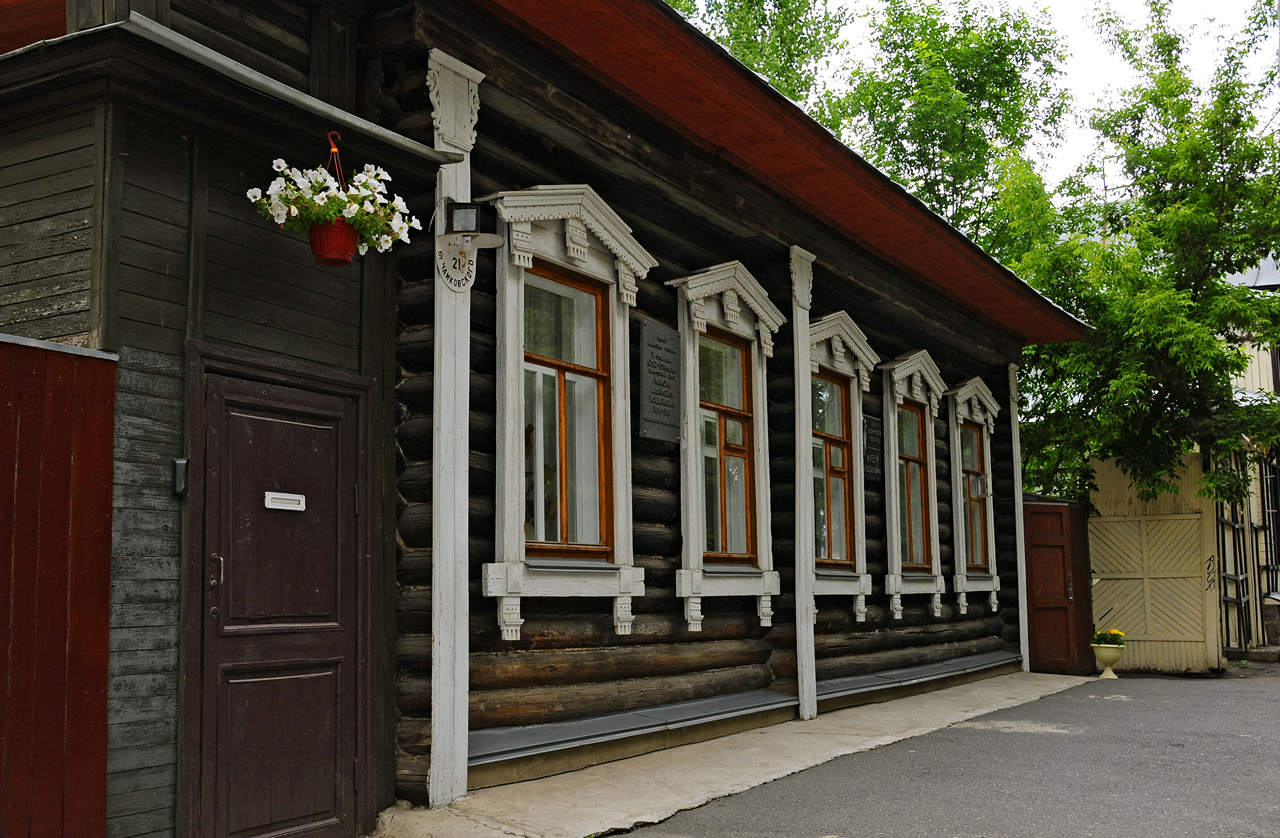 The facade of the Maxim Bogdanovich's Museum (Yaroslavl)